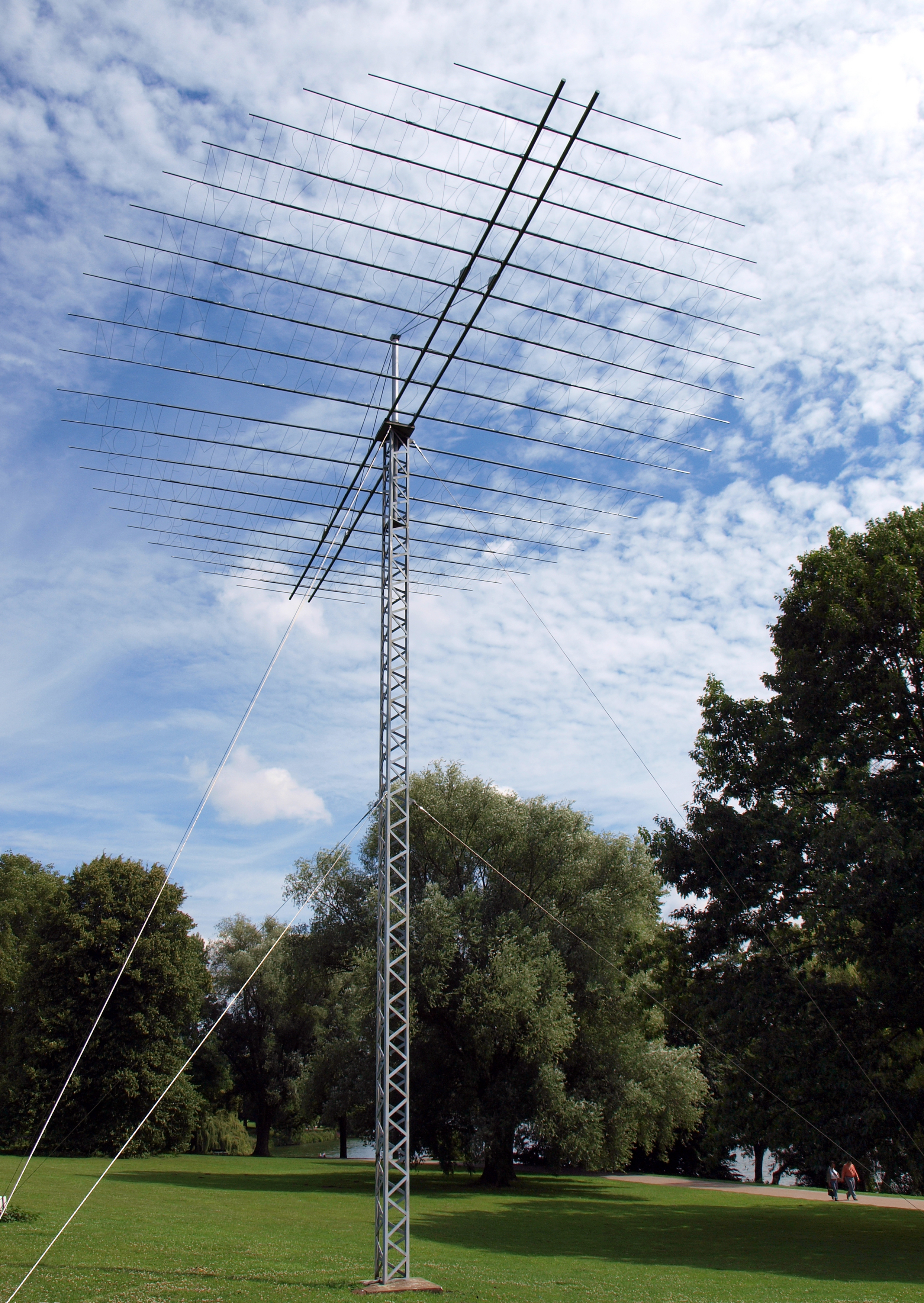 Looking up. Reading the Words from Ilya Kabakov, Münster, Germany